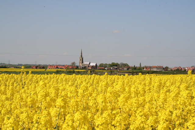 Claypole. Across oil seed rape in full flower